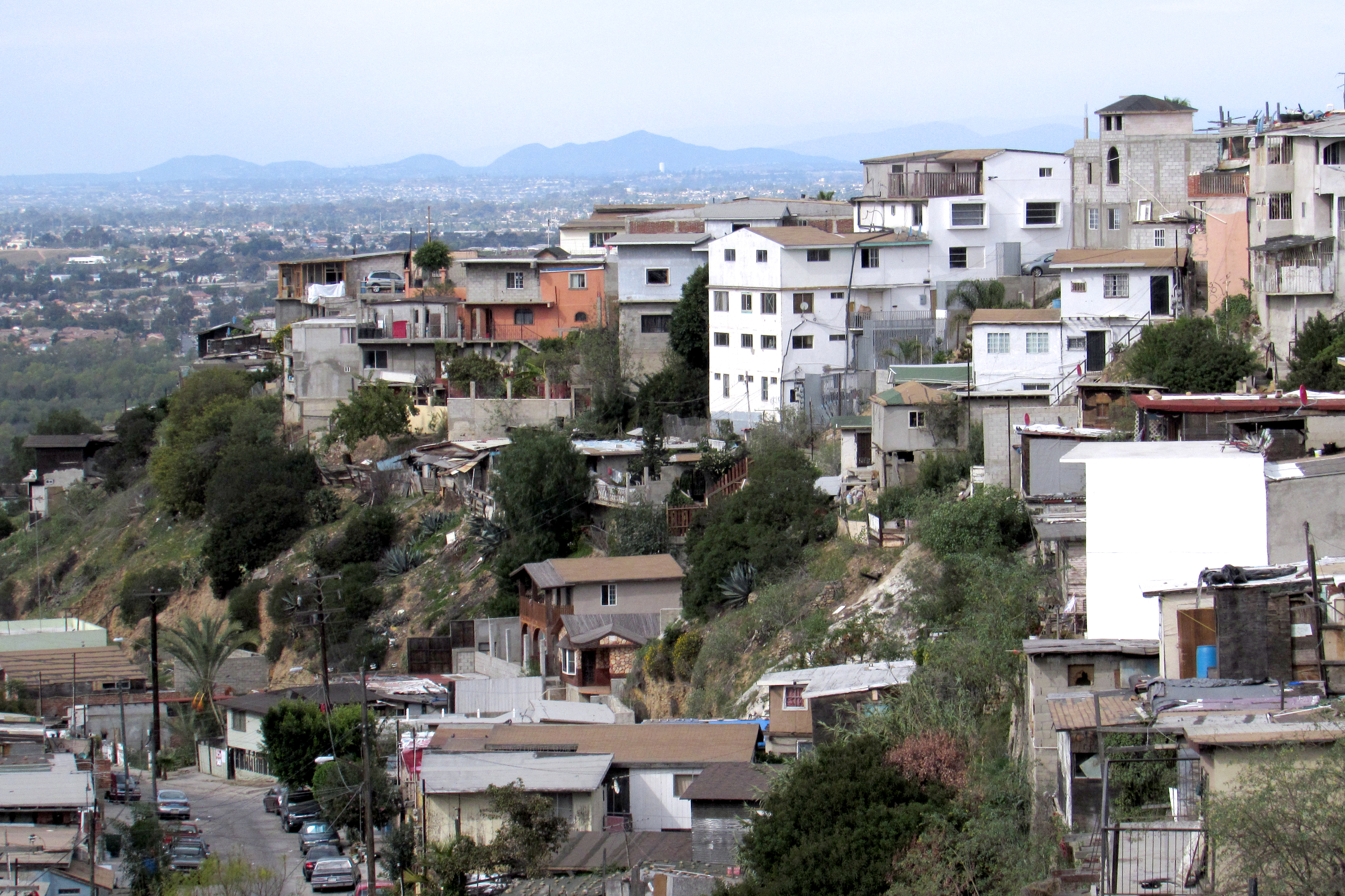 Houses on a hill in Tijuana